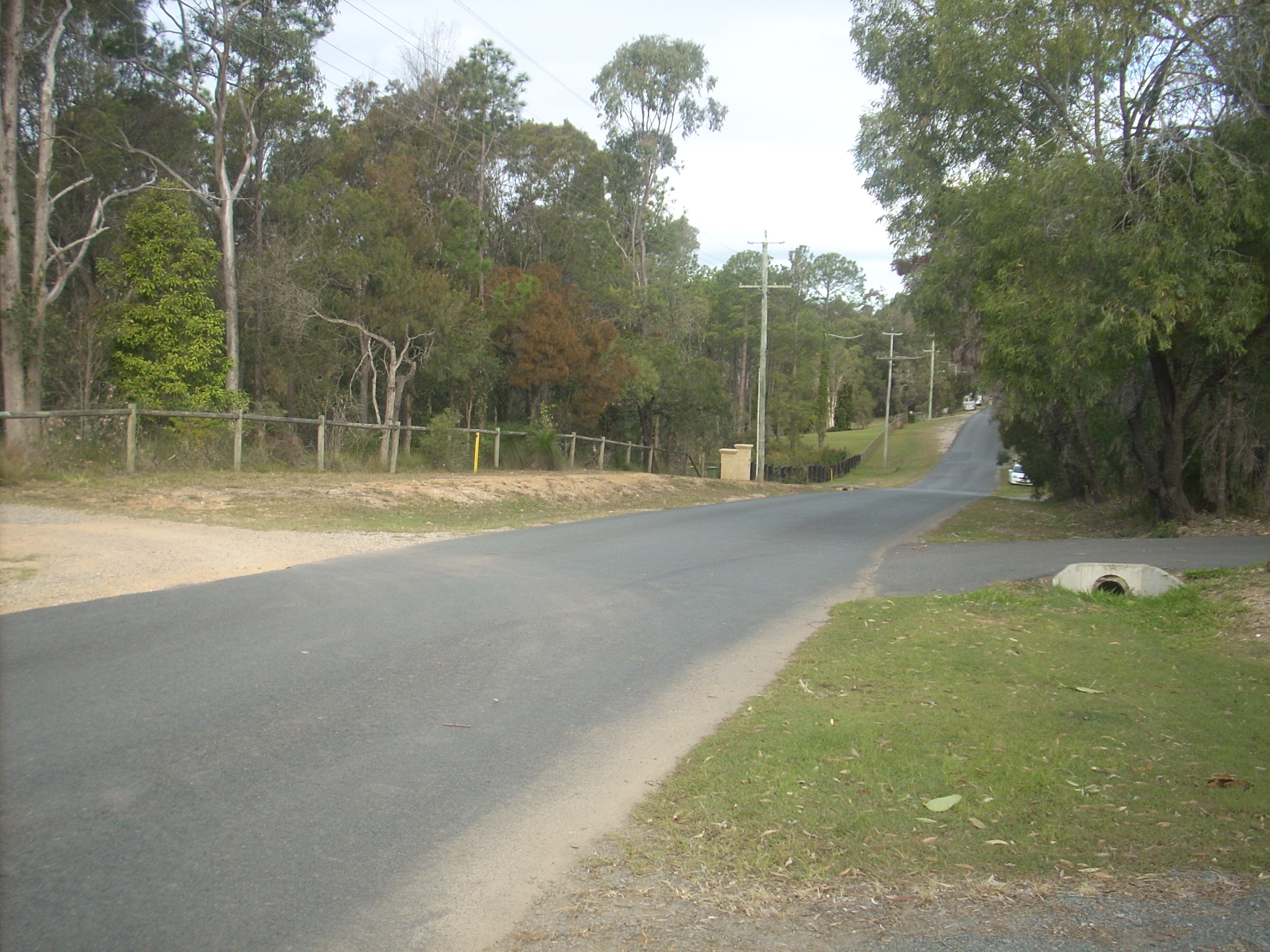 Winston Rd at Sheldon, Redland City, Queensland, Australia, facing south-east.